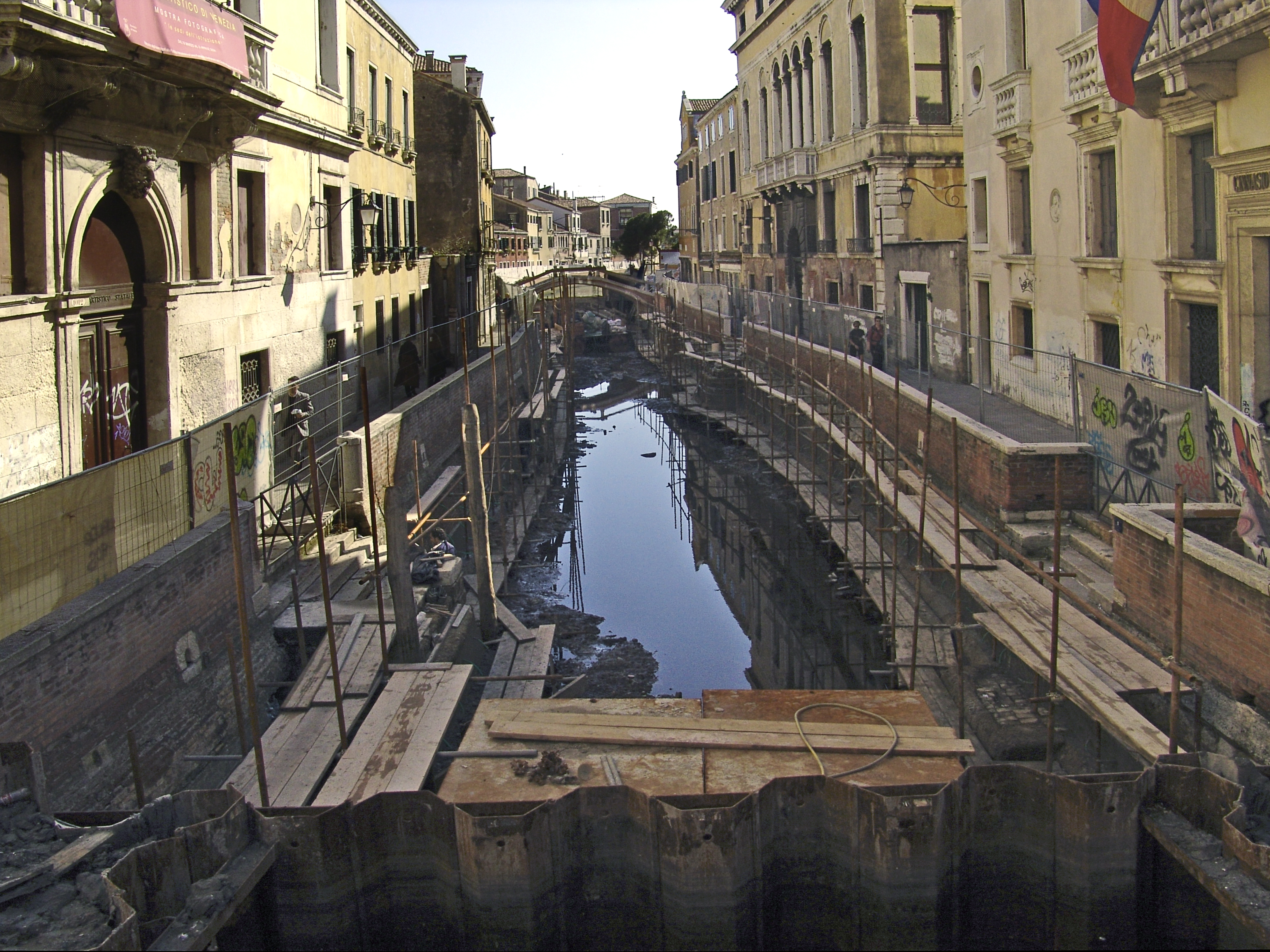 Rio de San Trovaso, seen from the bridge "Ponte de le Maravegie", Venice.